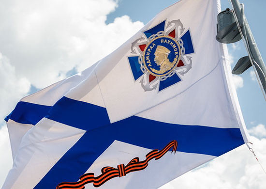 Russian Navy Ensign with the badge of the Order of Nakhimov. The cruiser «Moskva» («Moscow»). Sevastopol, 22 Jul 2016.